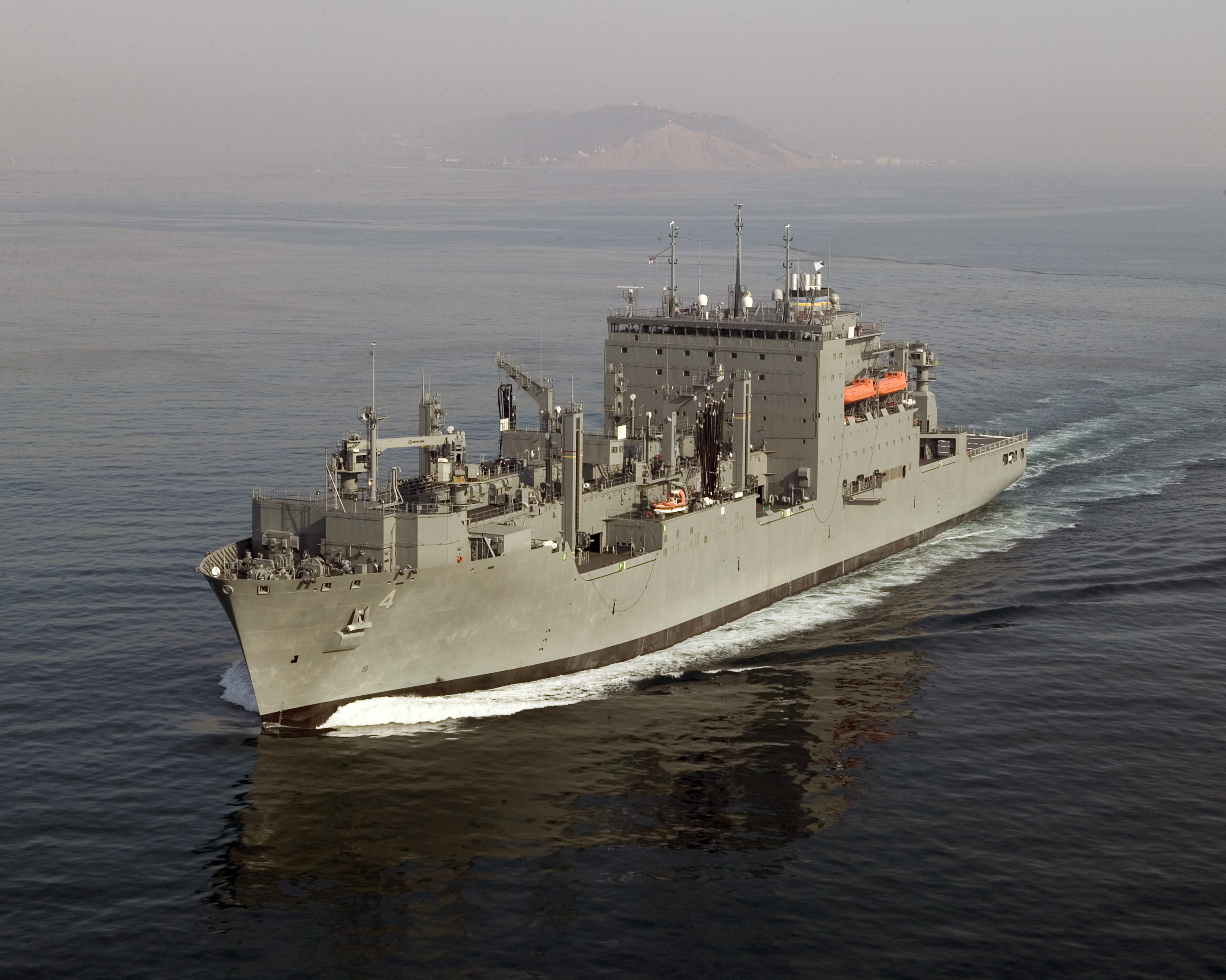 USNS Richard E. Byrd (T-AKE-4) underway. Outside San Diego harbor? US Navy photo from the Military Sealift Command collections.